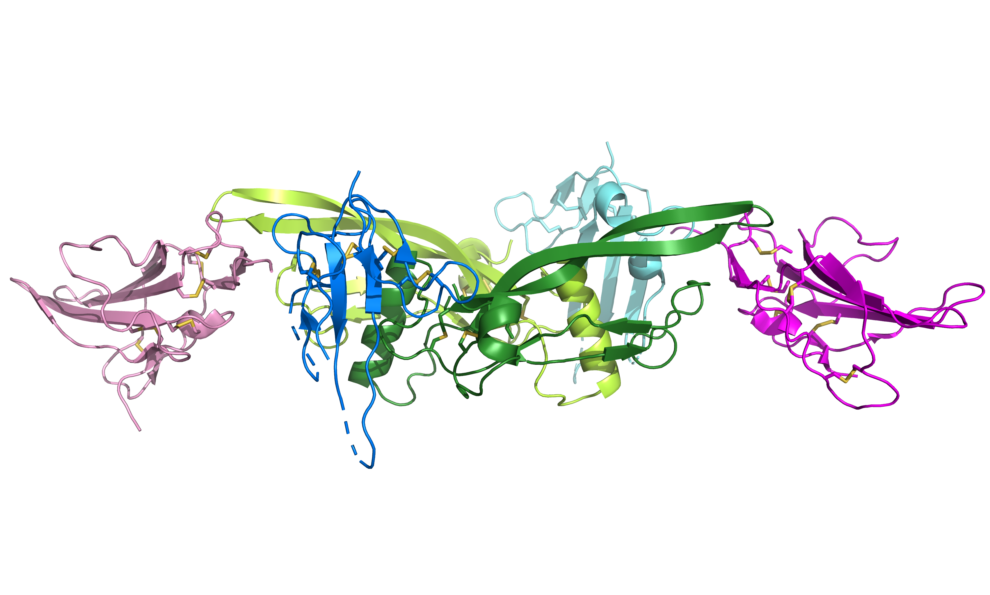 Complex of TGFb1 dimer (green colors) with TGFb receptor type II (magenta colors, only extracellular part shown) and TGFb receptor type I (blue colors, only extracellular part shown). Disulfidbridges shown with yellow sulfur. Based on PDB ID 3KFD.